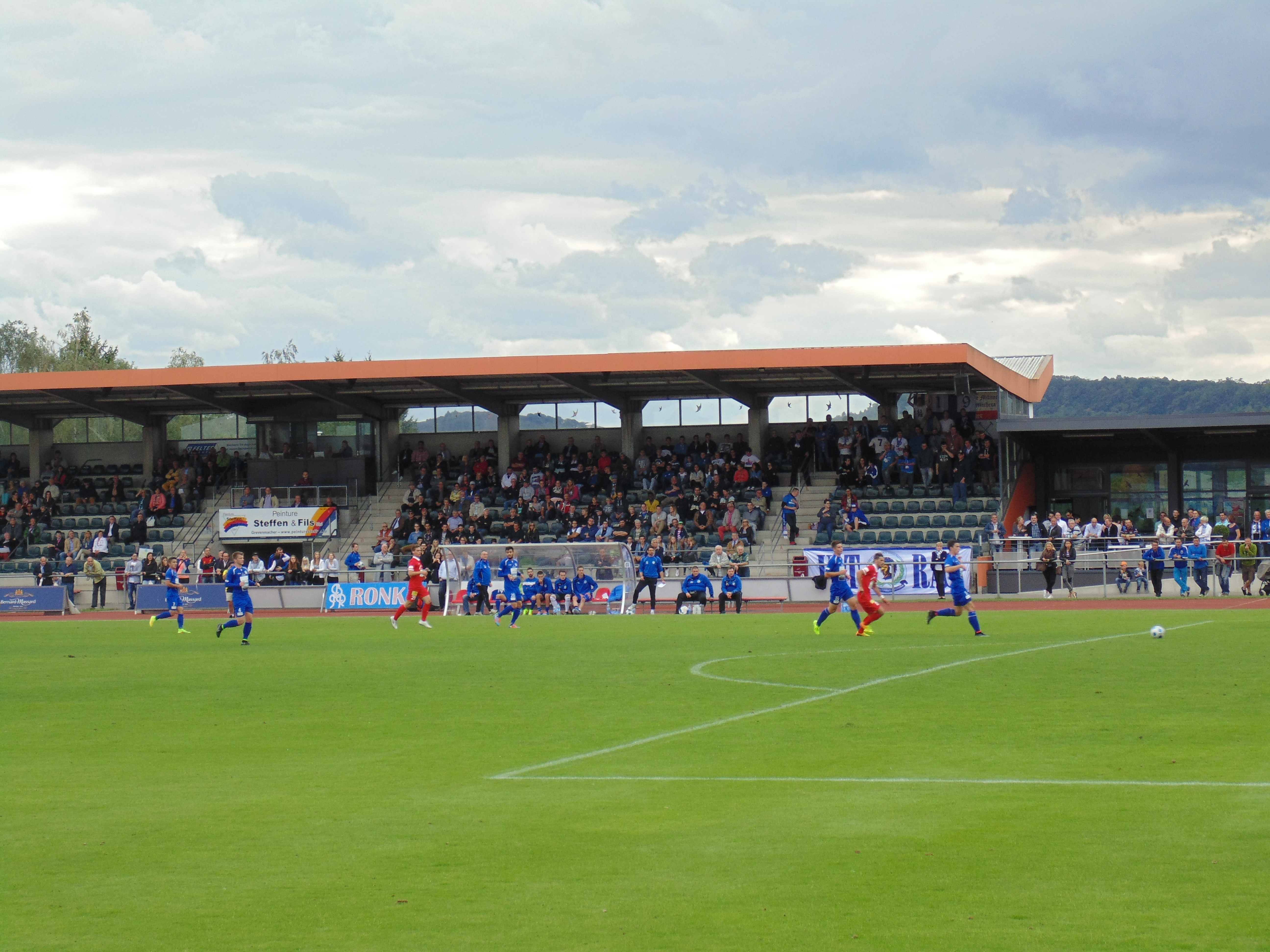 Stade Op Flohr, Main Stand